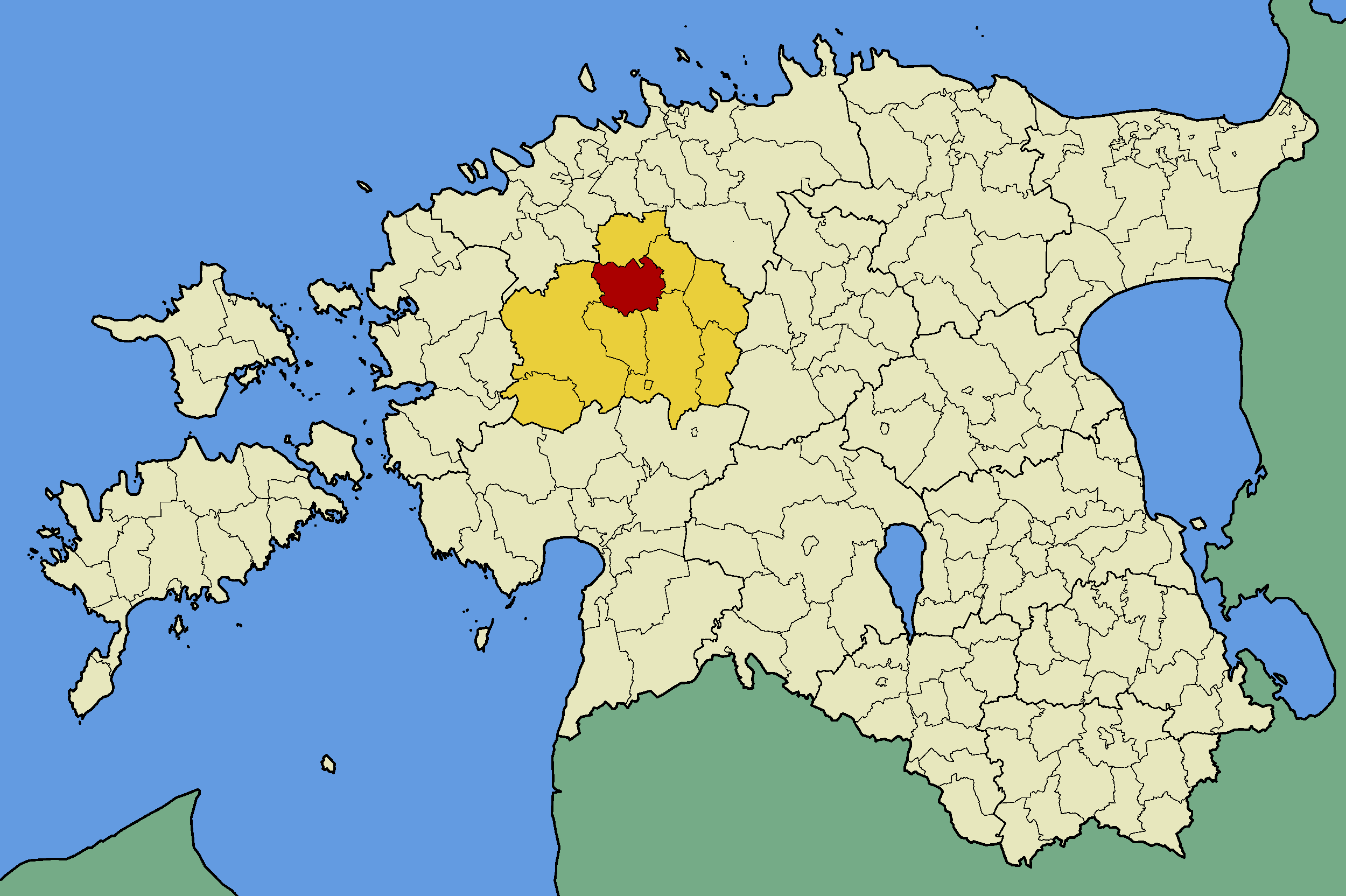 Map of Estonia with borders of municipalities (parishes). Rapla county and Rapla municipality emphasized.